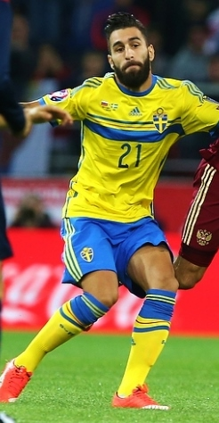 Jimmy Durmaz